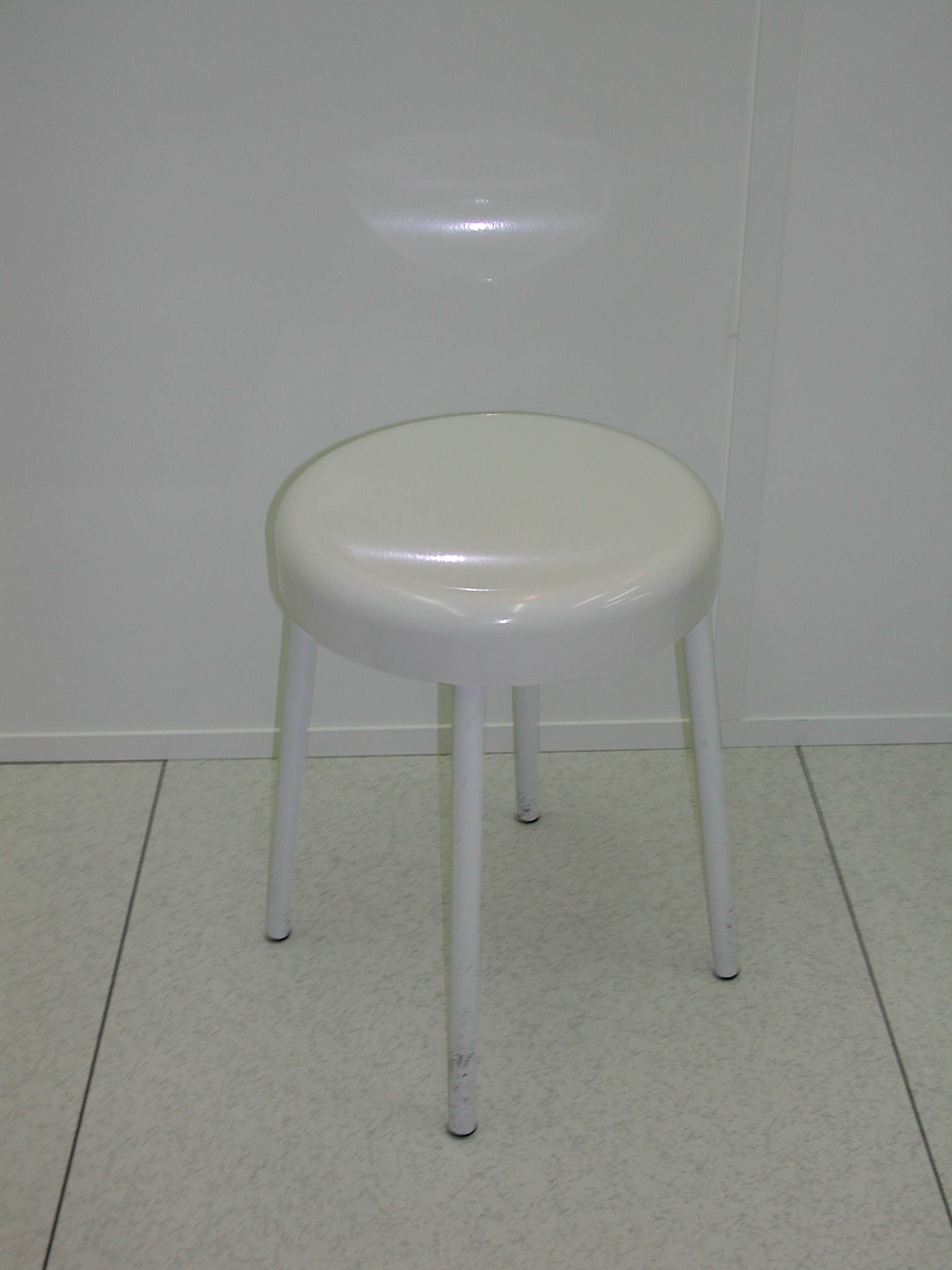 Small chair for clean room.